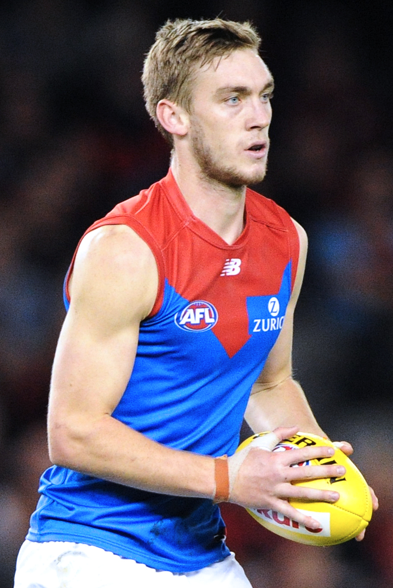 Oscar McDonald of Melbourne during the 2018 AFL round 6 match between Essendon and Melbourne at Etihad Stadium on Sunday, 29 April 2018 in Melbourne, Victoria.